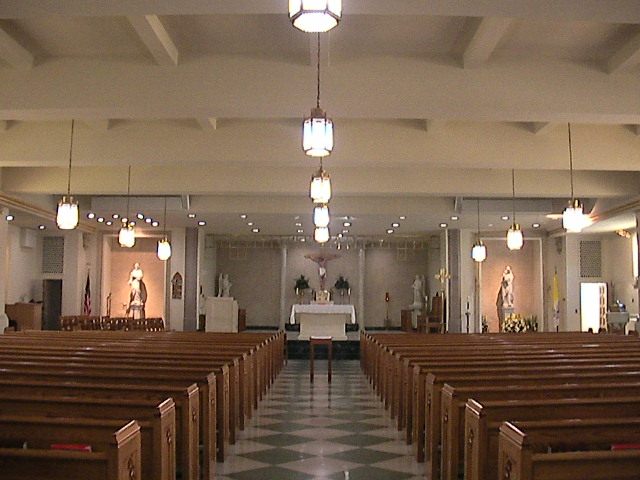 Picture of St.Vito's altar